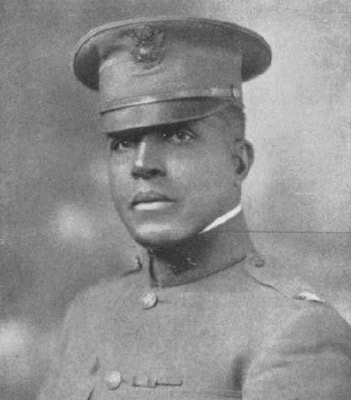 Portrait photograph of Colonel Charles Young in 1919. He was the third African American graduate of West Point, the first black U.S. National Park Service superintendent, the first African American military attaché, and the highest ranking black officer in the United States Army until his death in 1922.